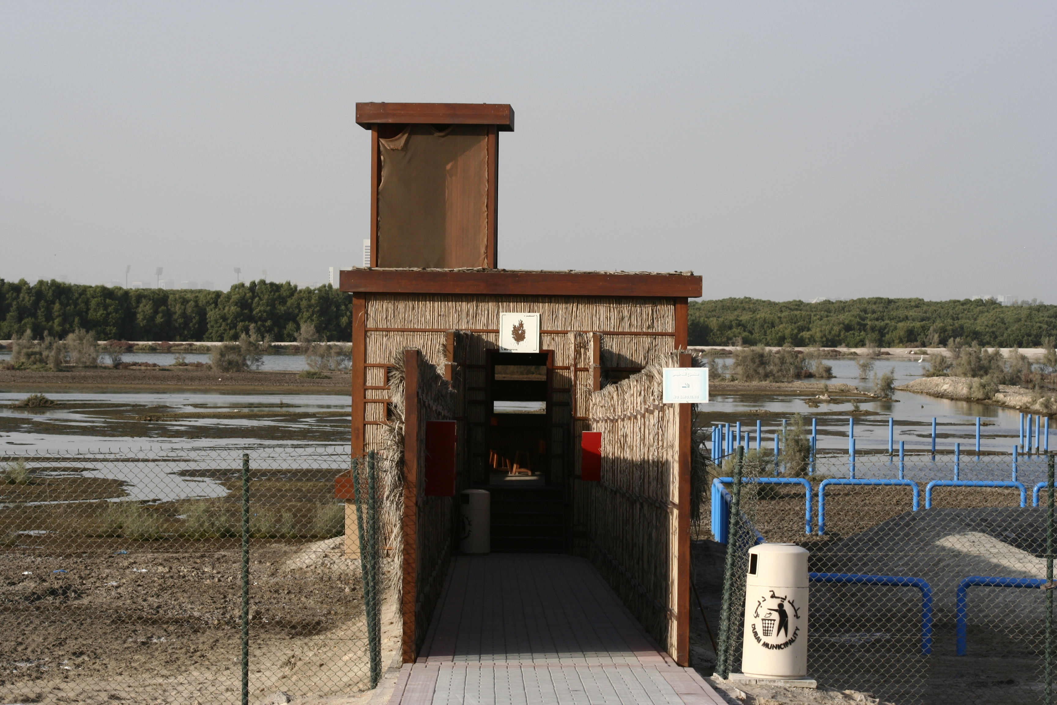 One of the three hides at the Rasal khore wildlife sanctuary, Dubai, United Arab Emirates.